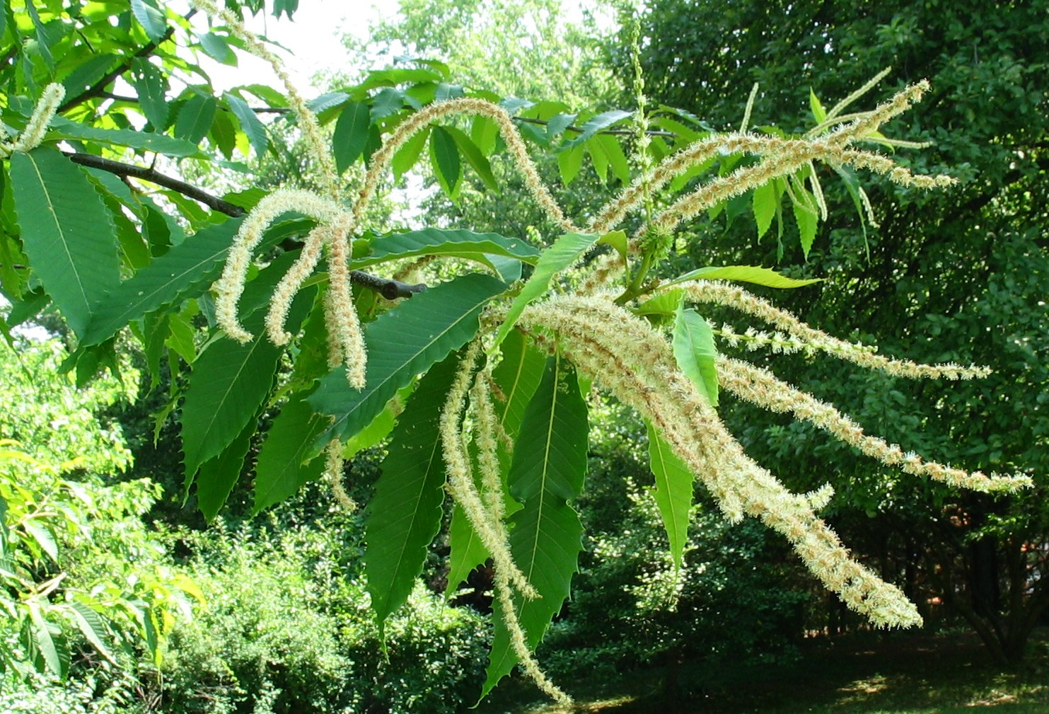 American Chestnut Pollen Stalks in June: Photo by myself, Timothy Van Vliet from my New Jersey Orchard, 2004